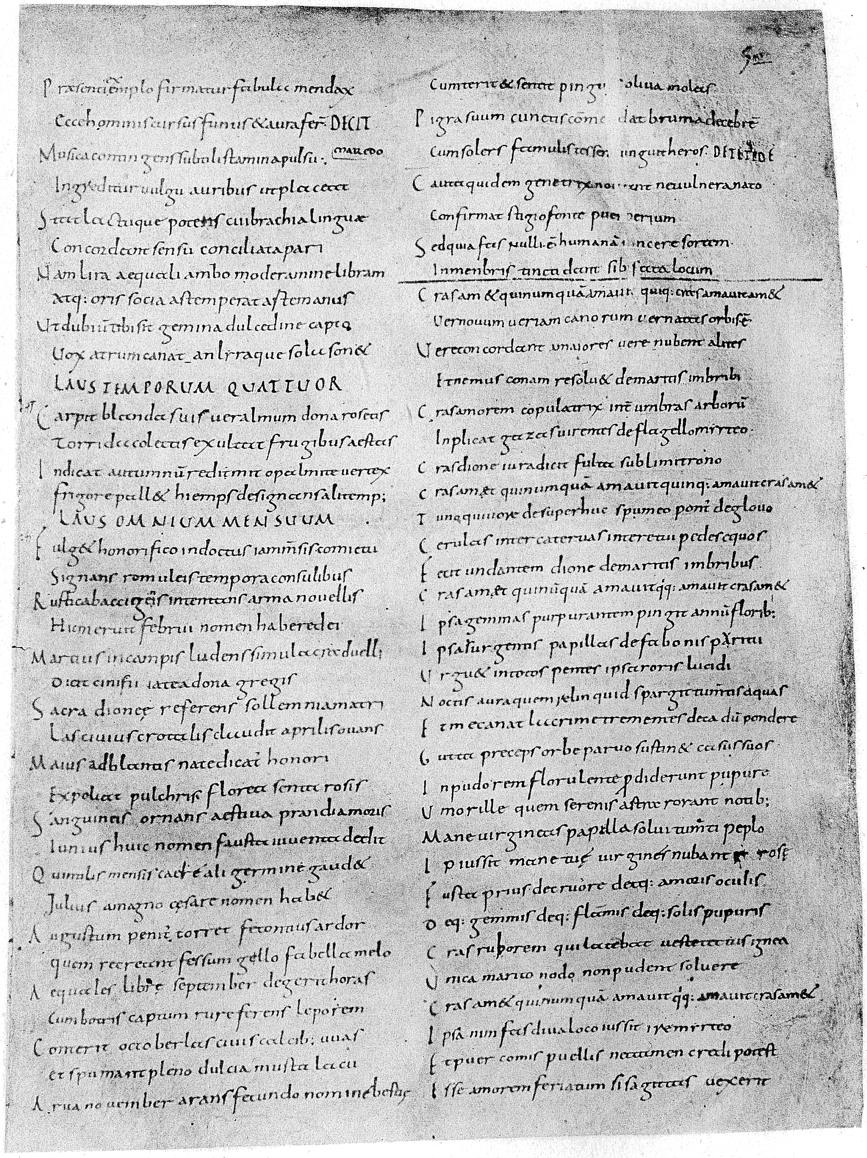 The 1st text page of the Pervigilium Veneris in codex T (the Codex Thuaneus or Codex Pithoeanus, now Codex Parisinus 8071, late 9th century, today in the French National Library at Paris).